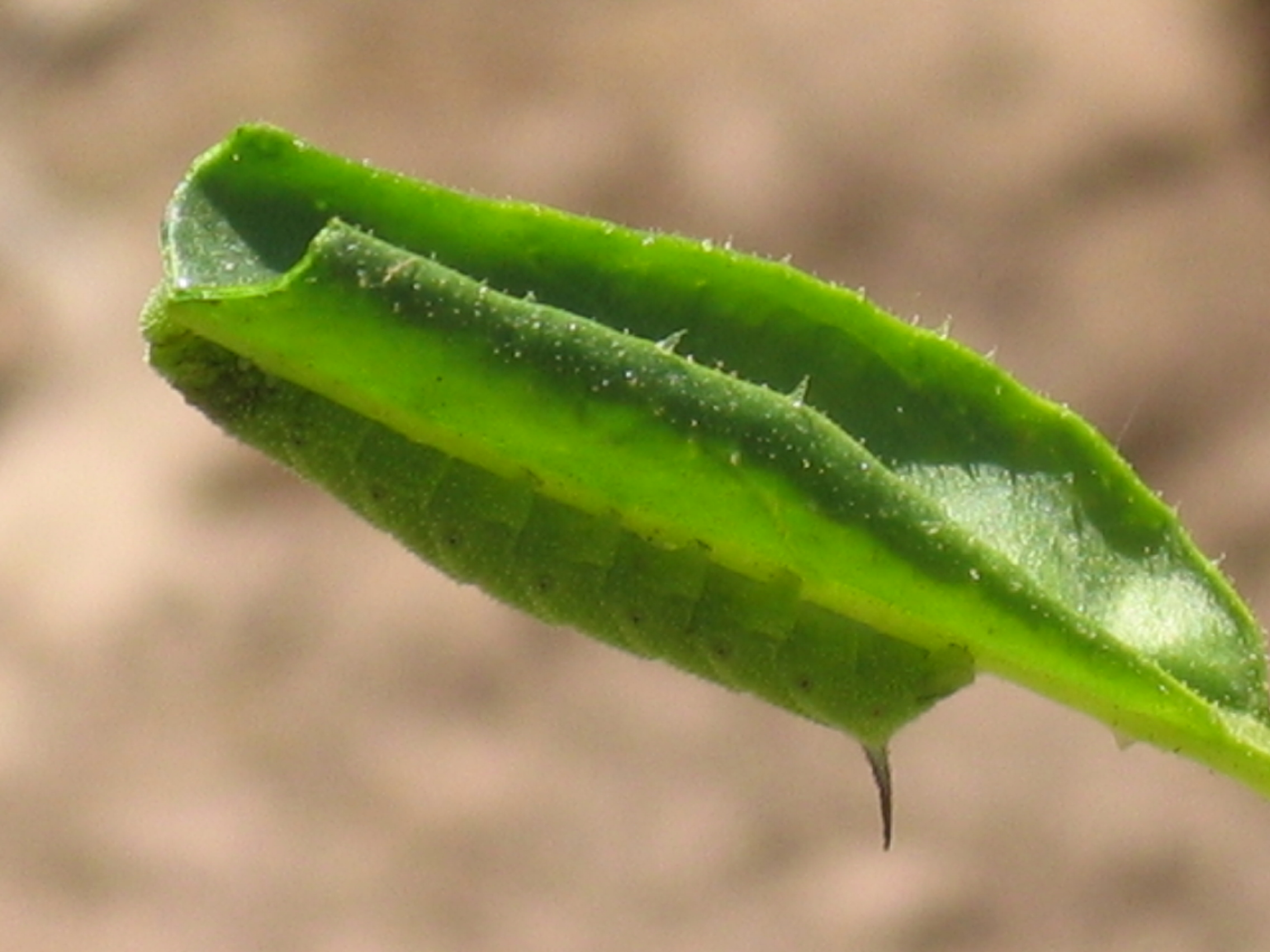 Manduca feeding on a Nicotiana attenuata leaf in Utah.